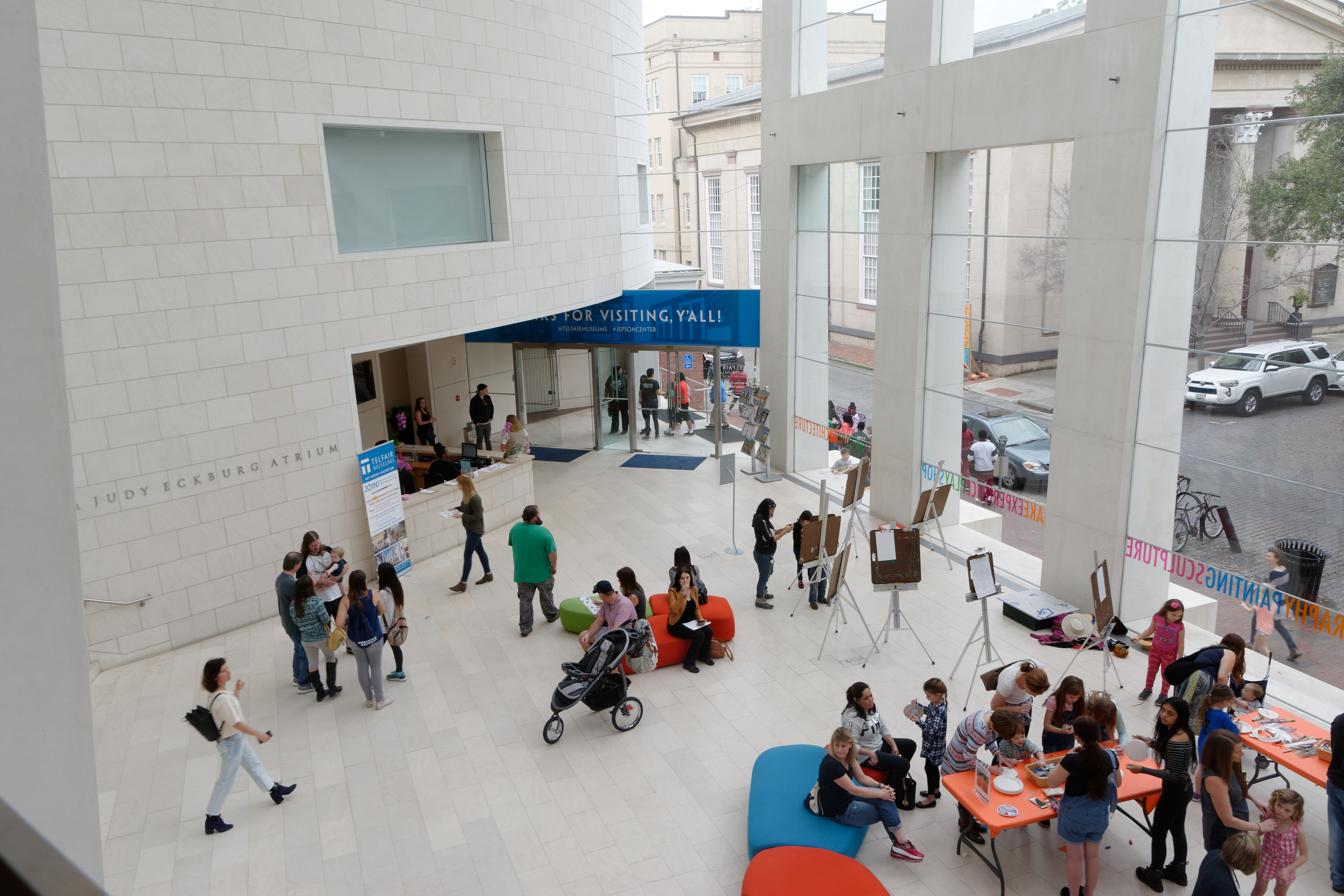 The lobby of the Jepson Center for the Arts, part of the Telfair museums in Savannah, Georgia, US